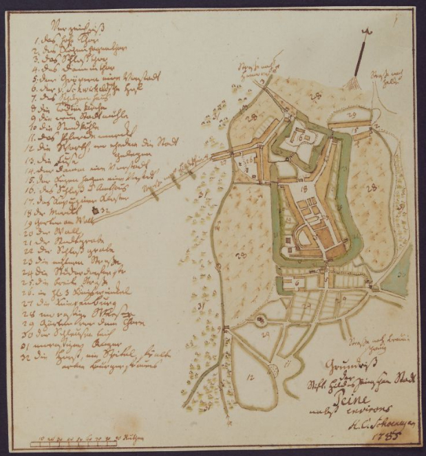 City map of Peine 1785, Lower Saxony, Germany.